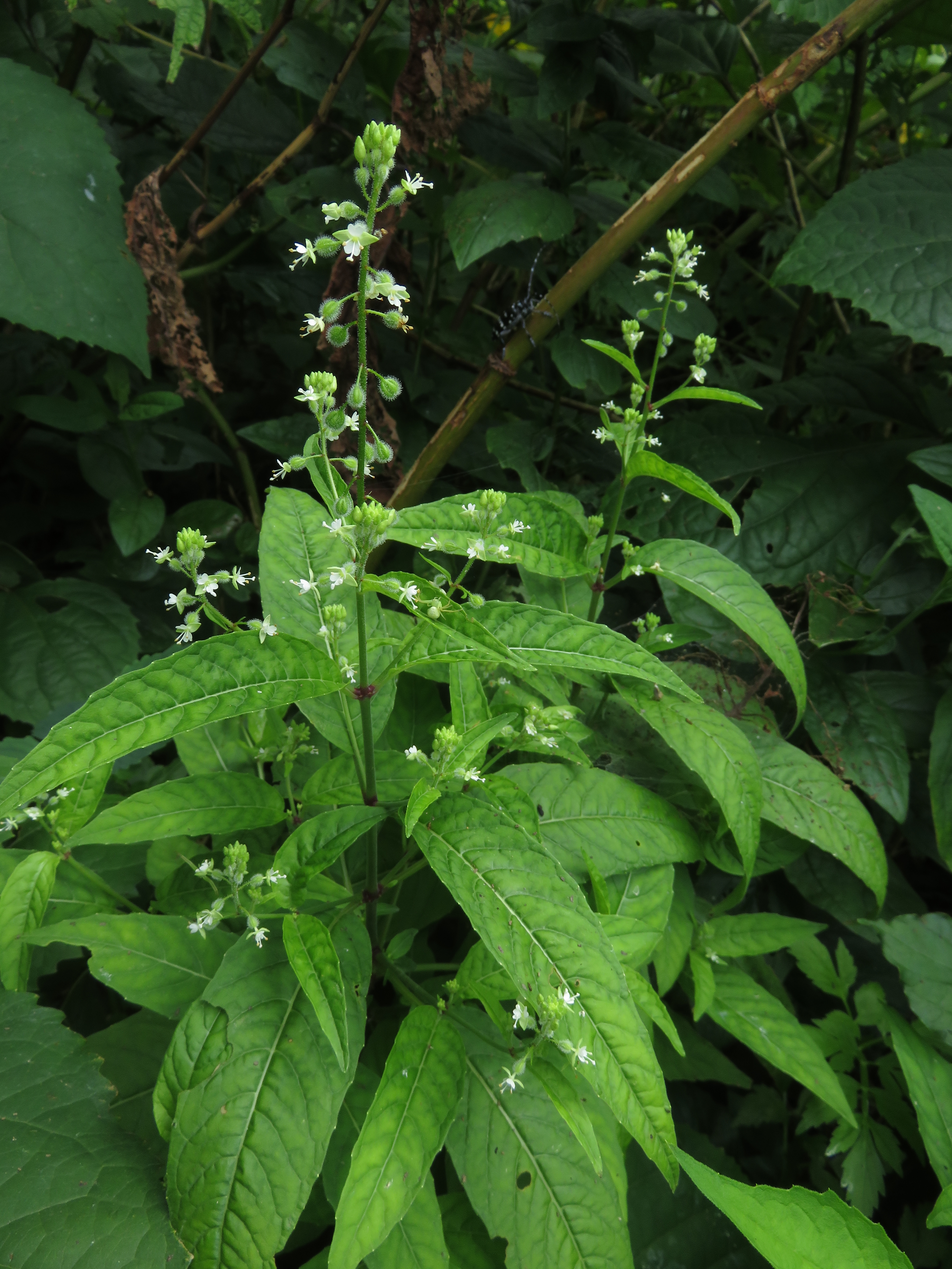 Circaea mollis, Tsugaru area, Aomori pref., Japan